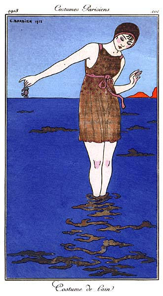 Bathing suit, 1913 Creator: G. Barbier Subjects: Bathing suits--Drawings Women--Clothing & dress Digital Collection: Fashion Plate Collection Item Number: COS319 Persistent URL: Visit Special Collections page for information on ordering a copy. University of Washington Libraries. Digital Collections